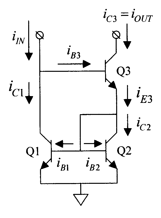 THis is a schematic diagram of a Wilson current mirror intended for Wilson current mirror that I wish to upgrade. Differs by having bare mirror with currents anotated to make explanation easier.